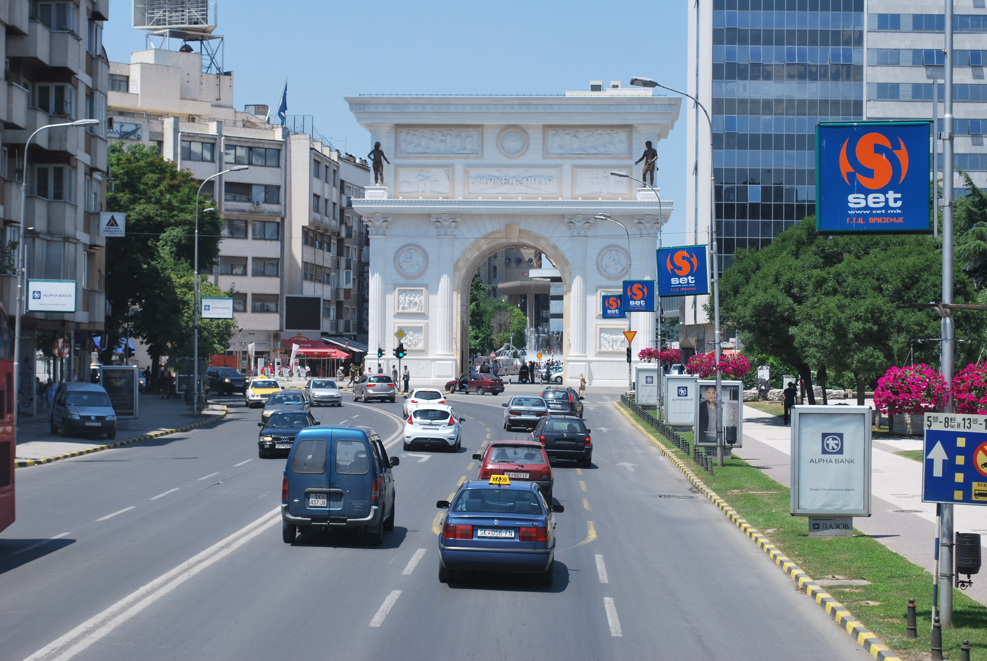 Triumphal arch "Porta Macedonia" in Skopje, Macedonia